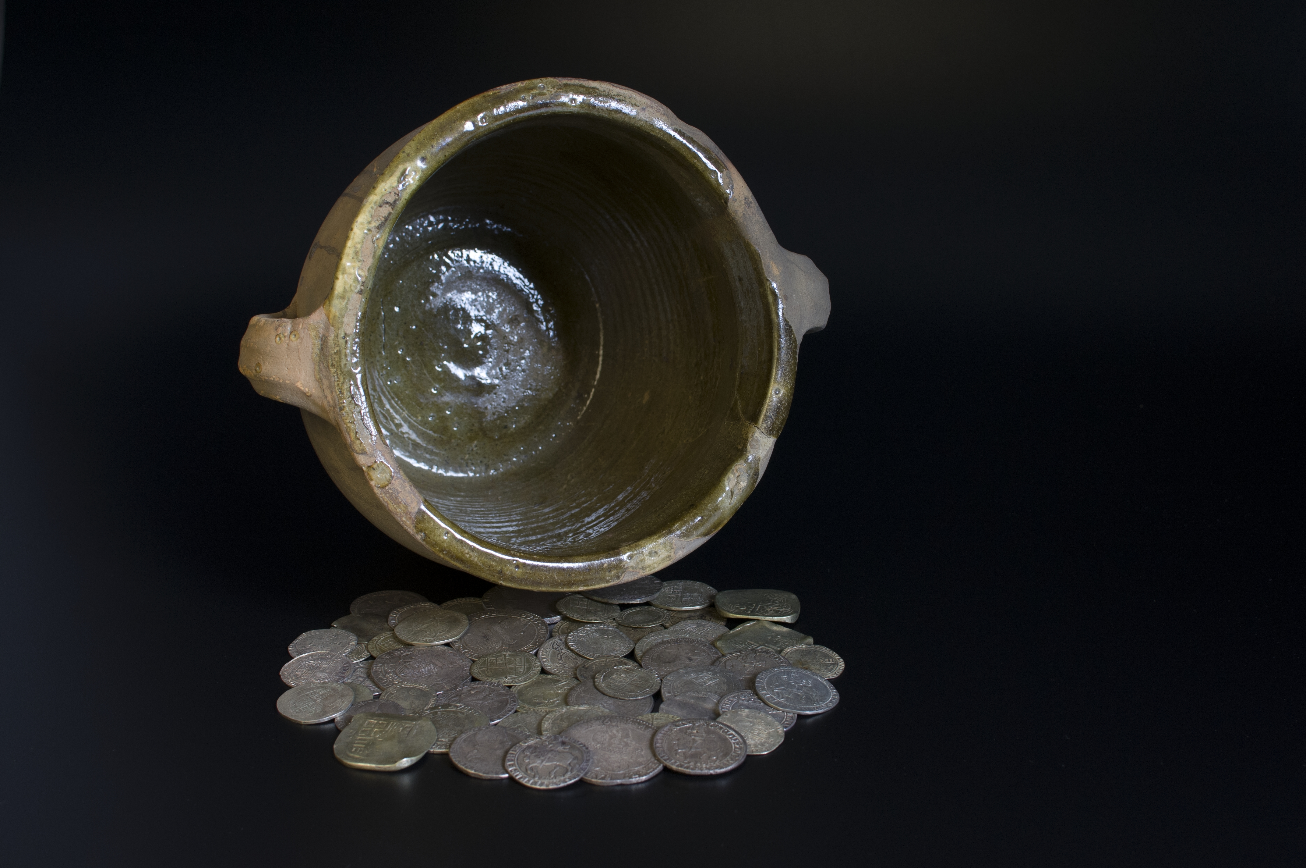 Vessel with two handles and glossy olive green glaze inside. Pot 'B' of the three vessels containing the Middleham hoard.